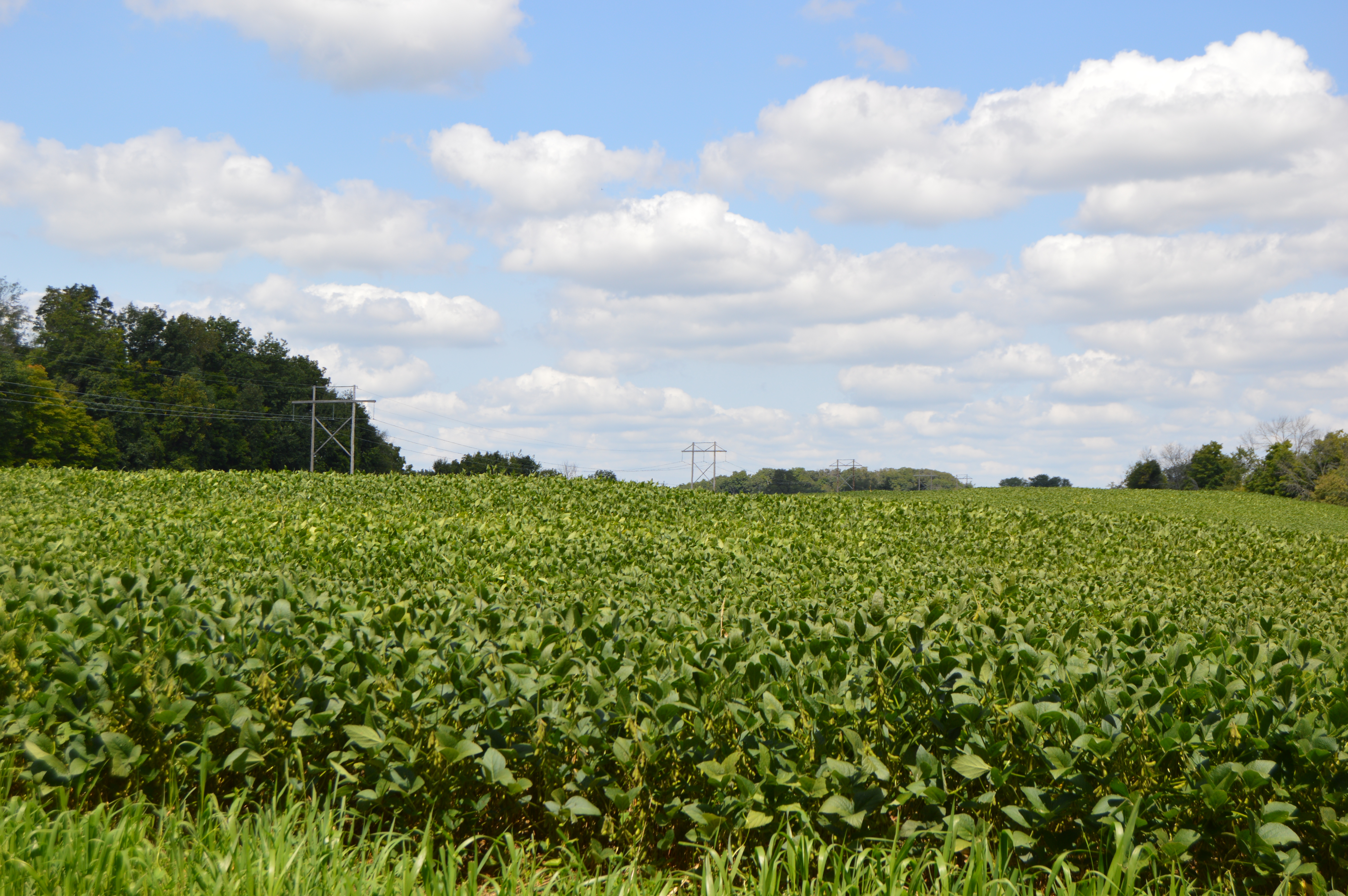 Fields off the northern side of Newmans Cardington Road north of Prospect in Pleasant Township, Marion County, Ohio, United States.